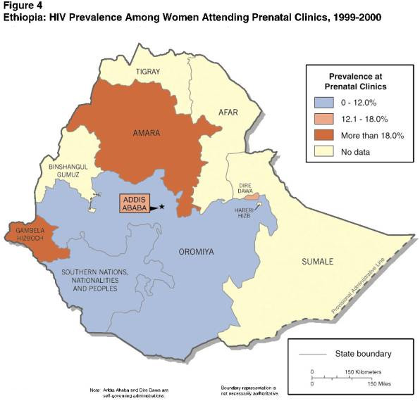 2nd Wave HIV for Ethiopia, by prenatal care